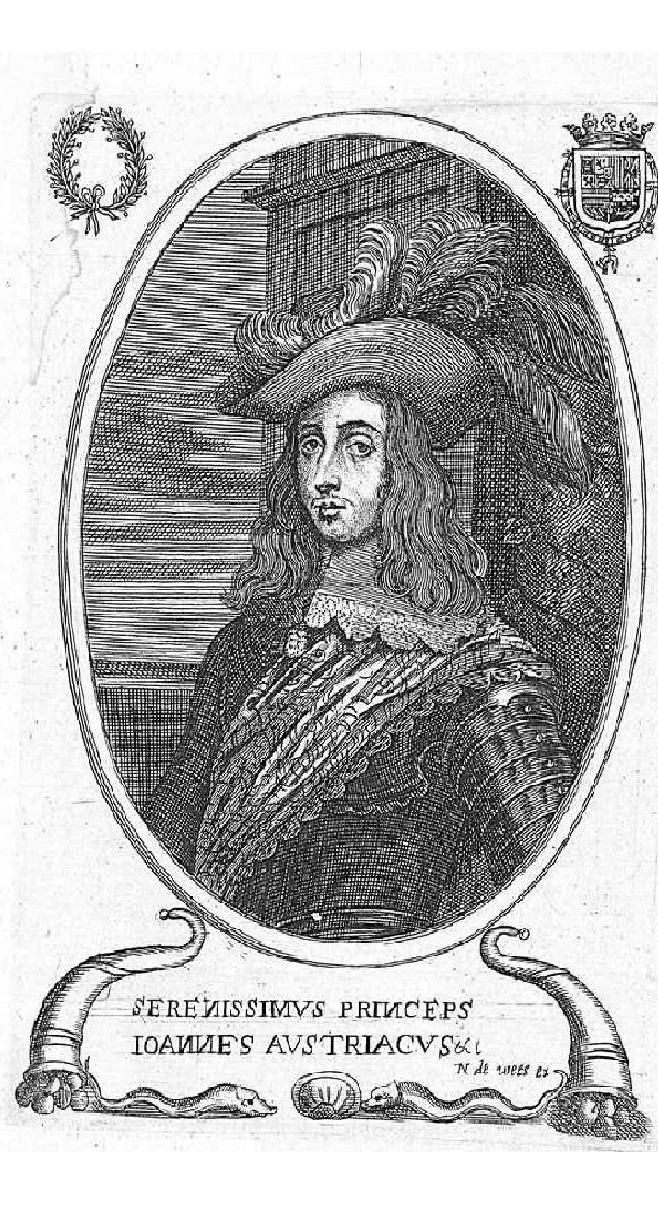 Juan José de Austria con banda de general